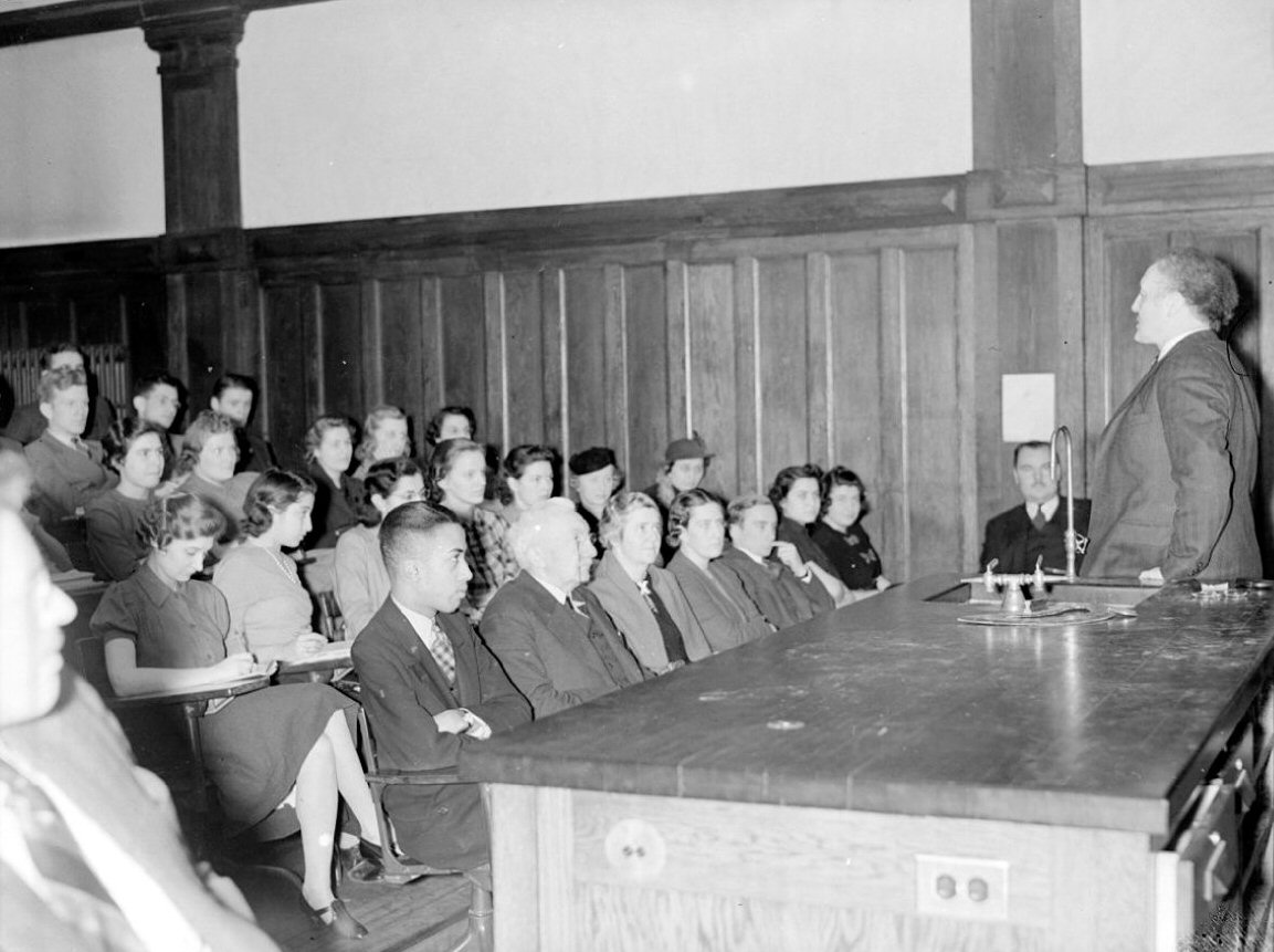 Cour magistrale à la Sir George William University